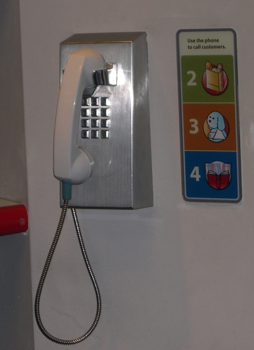 An Intercom device at Kohl's Children Museum, Glenview, Illinois, USA